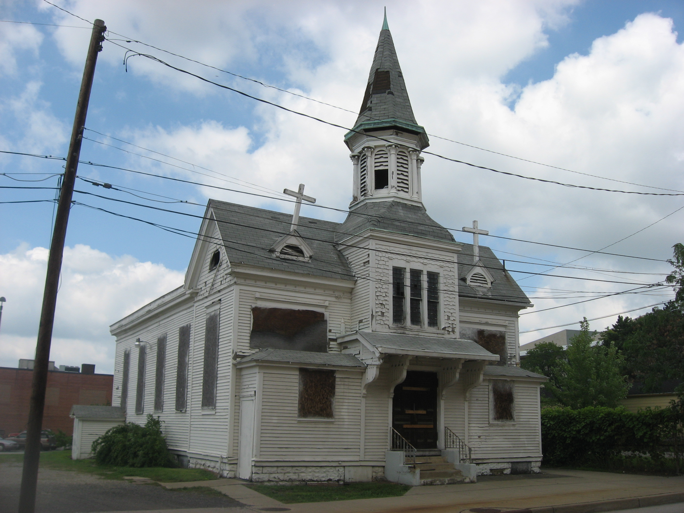 Front and eastern side of the former Welsh Congregational Church (now boarded up and abandoned, following a fire), located at 220 N. Elm Street in Youngstown, Ohio, United States. Built in 1861, it is listed on the National Register of Historic Places.